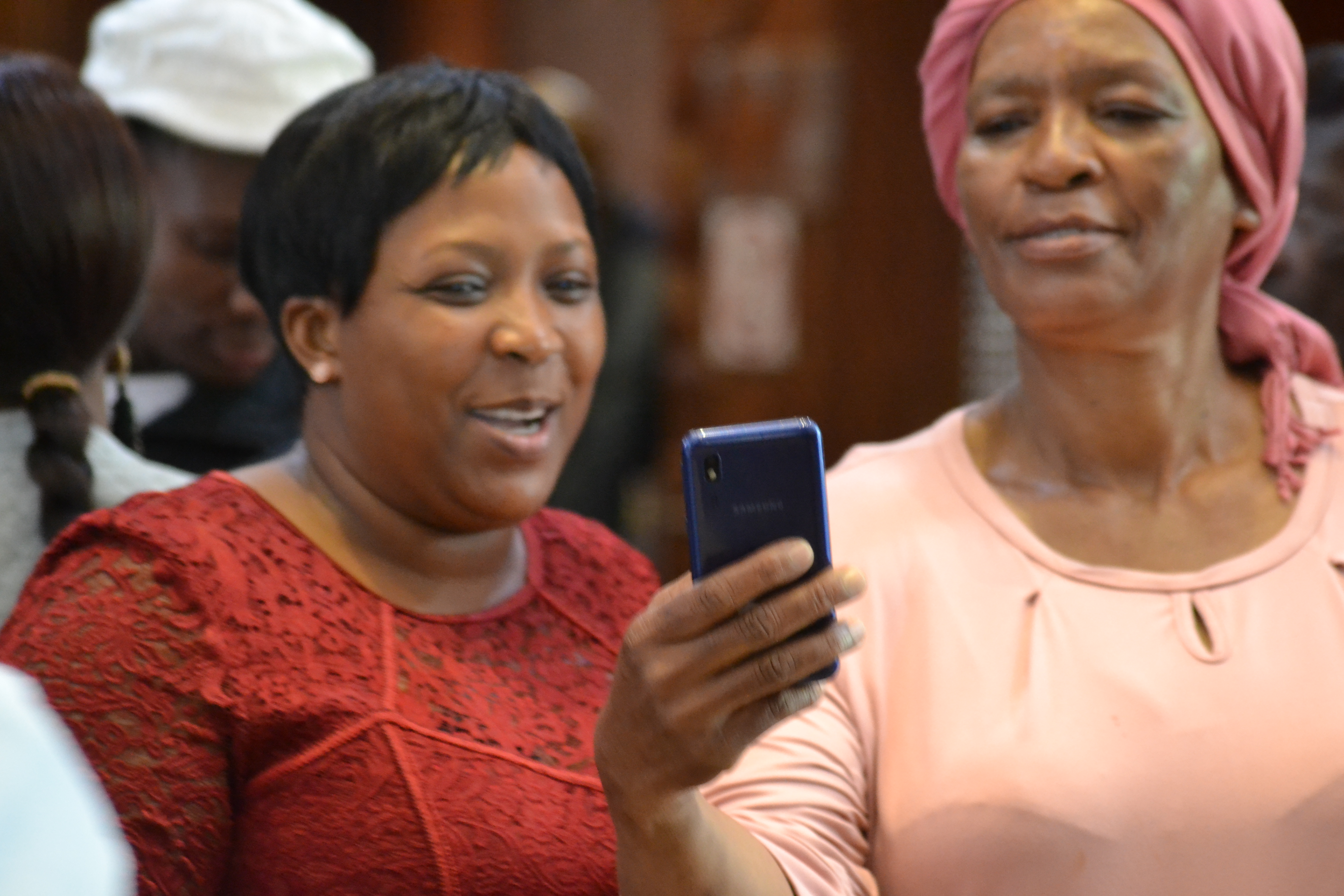 Premier of Mpumalanga, ANC politician